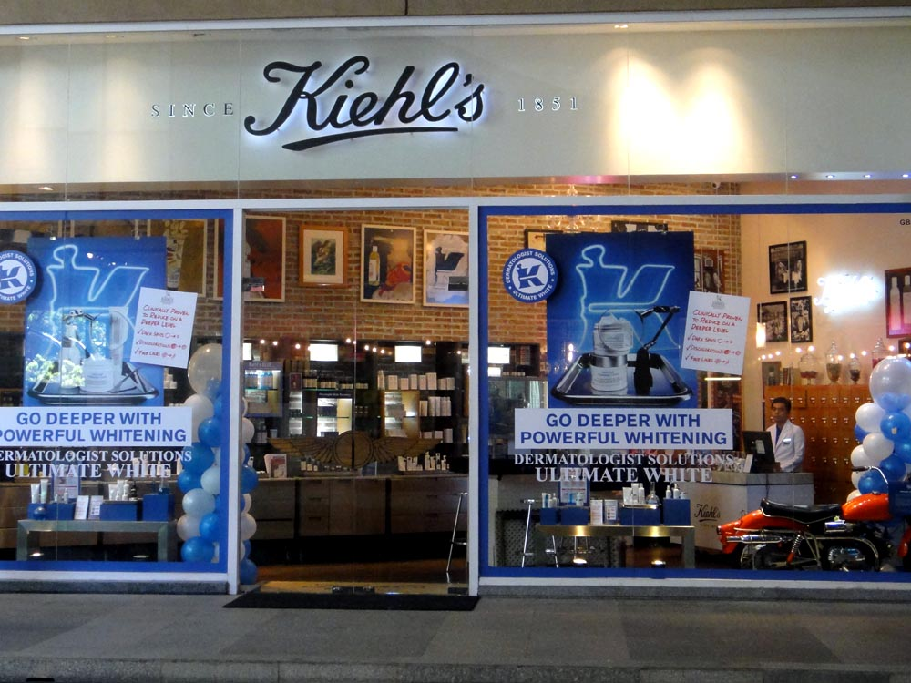 Kiehl's in Greenbelt 5, Makati City, Philippines